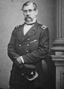 Charles Ferguson Smith (1807-1862), Union General.